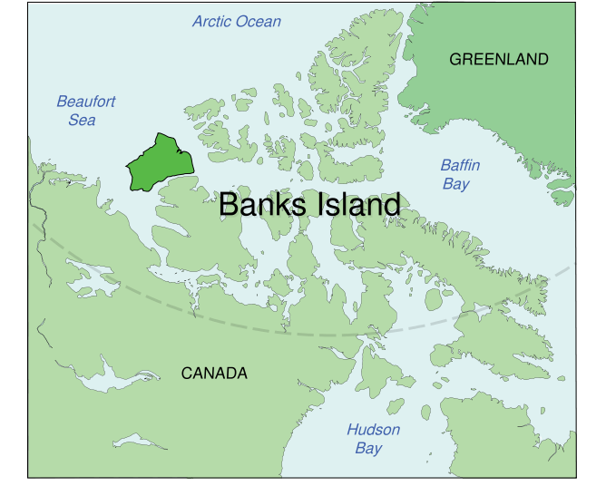 Created based on images from the CIA's World Fact Book.